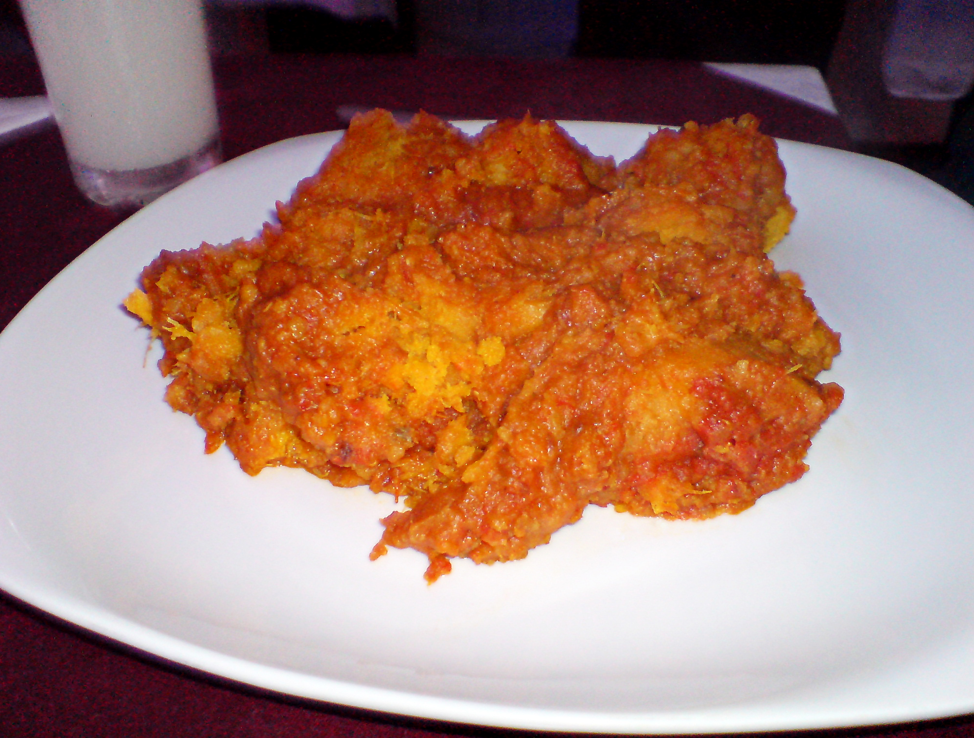 Yam pottage/porridge dishIgbo: Awaị